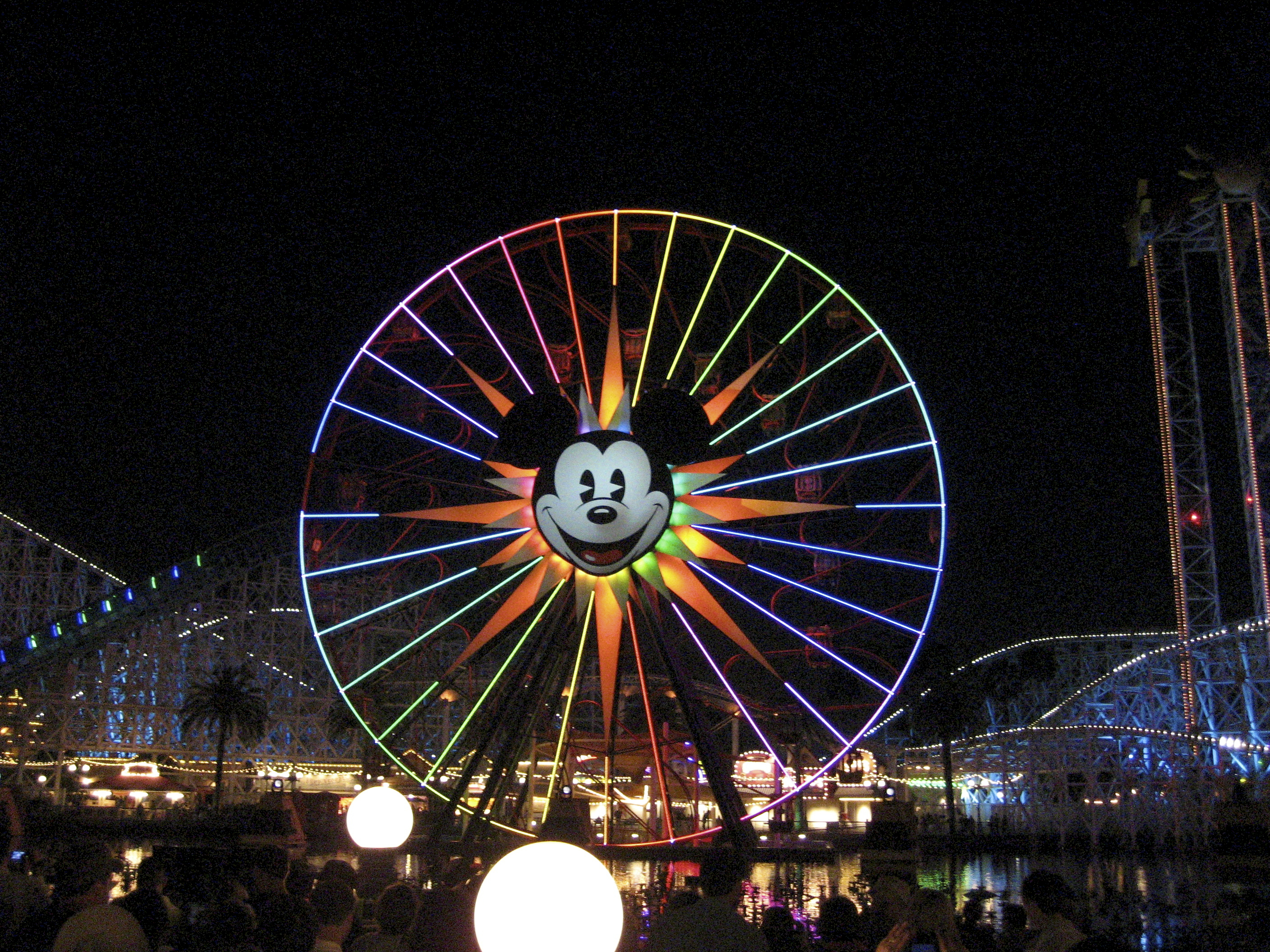 Mickey's Fun Wheel and Paradise Pier as seen on July 4, 2010 from the designated World of Color viewing area.